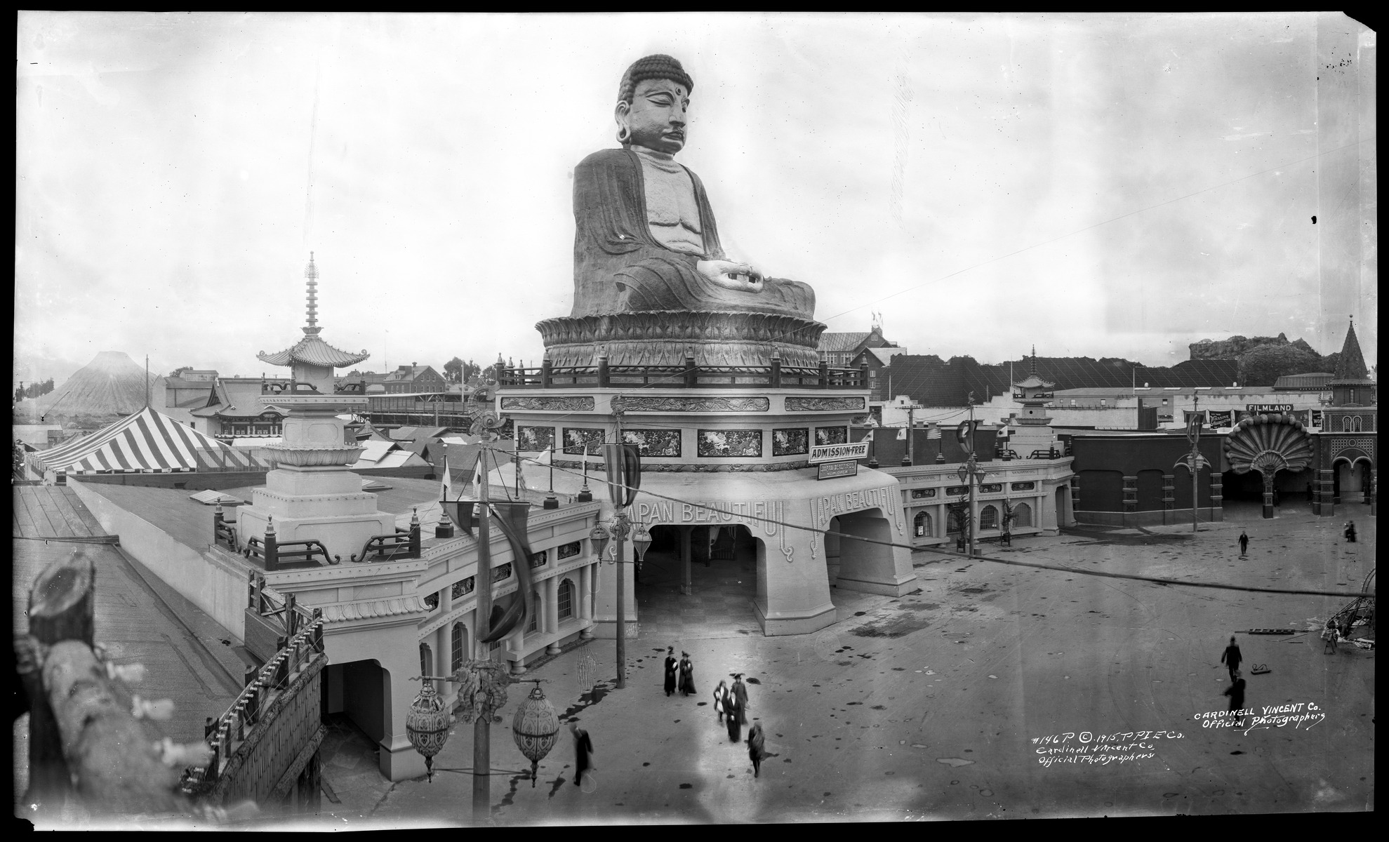 Entrance to Japan Beautiful, the Japan concession at the Panama-Pacific International Exposition, San Francisco, 1915, photographed by the Cardinal Vincent Company, copyright 1915, in the Edward A. Rogers collection, Bancroft Library, University of California at Berkeley.